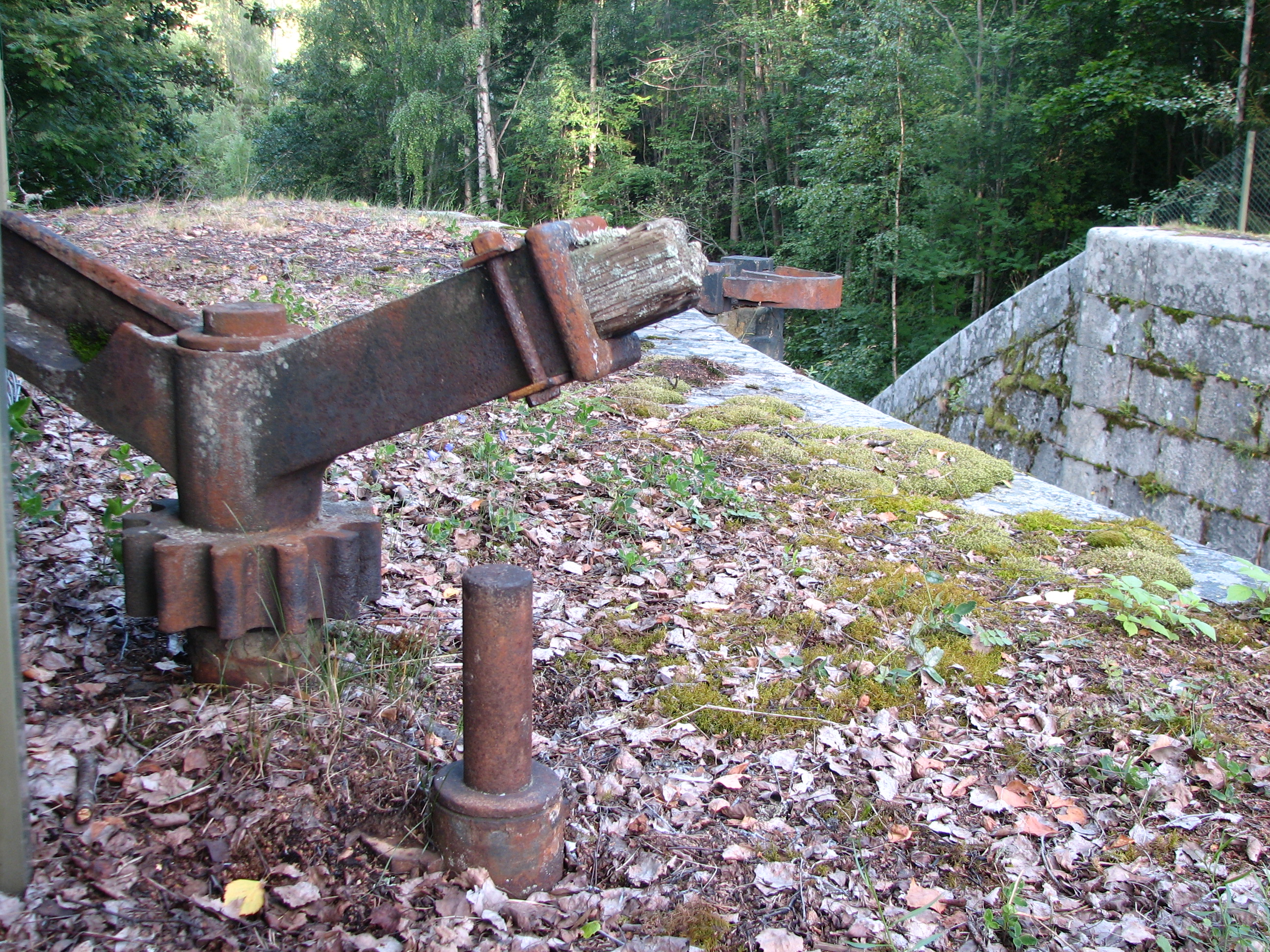 The remainder of the lock gate mechanism for the Tamm's canal lock at Näsviken, Hälsingland, Sweden